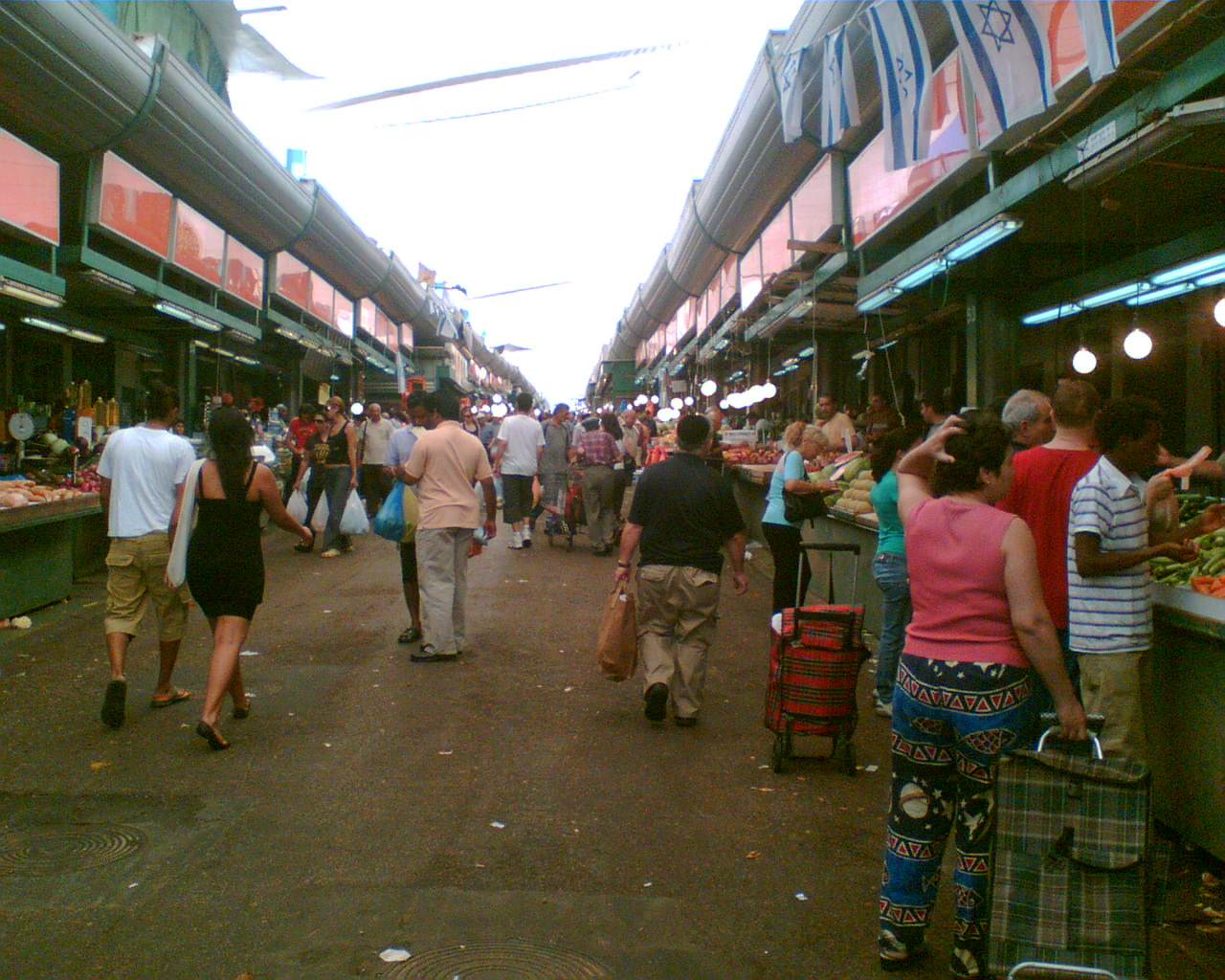 Hatikva market